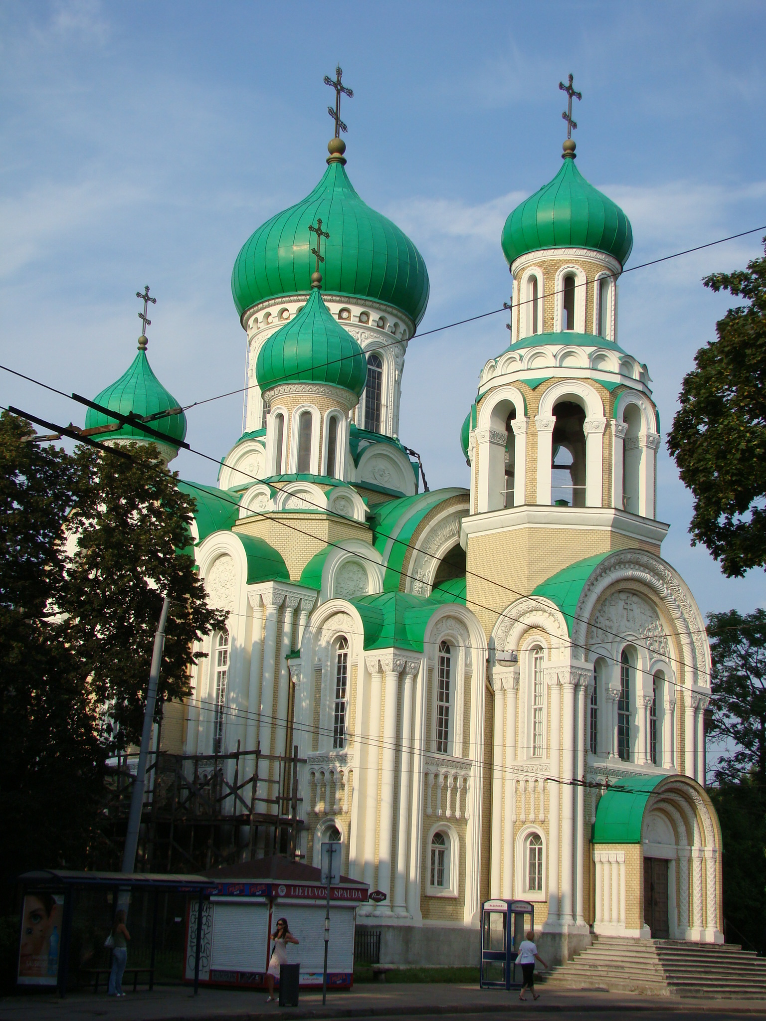 Russian Orthodox Church of St Michael and St Constantin Vilnius